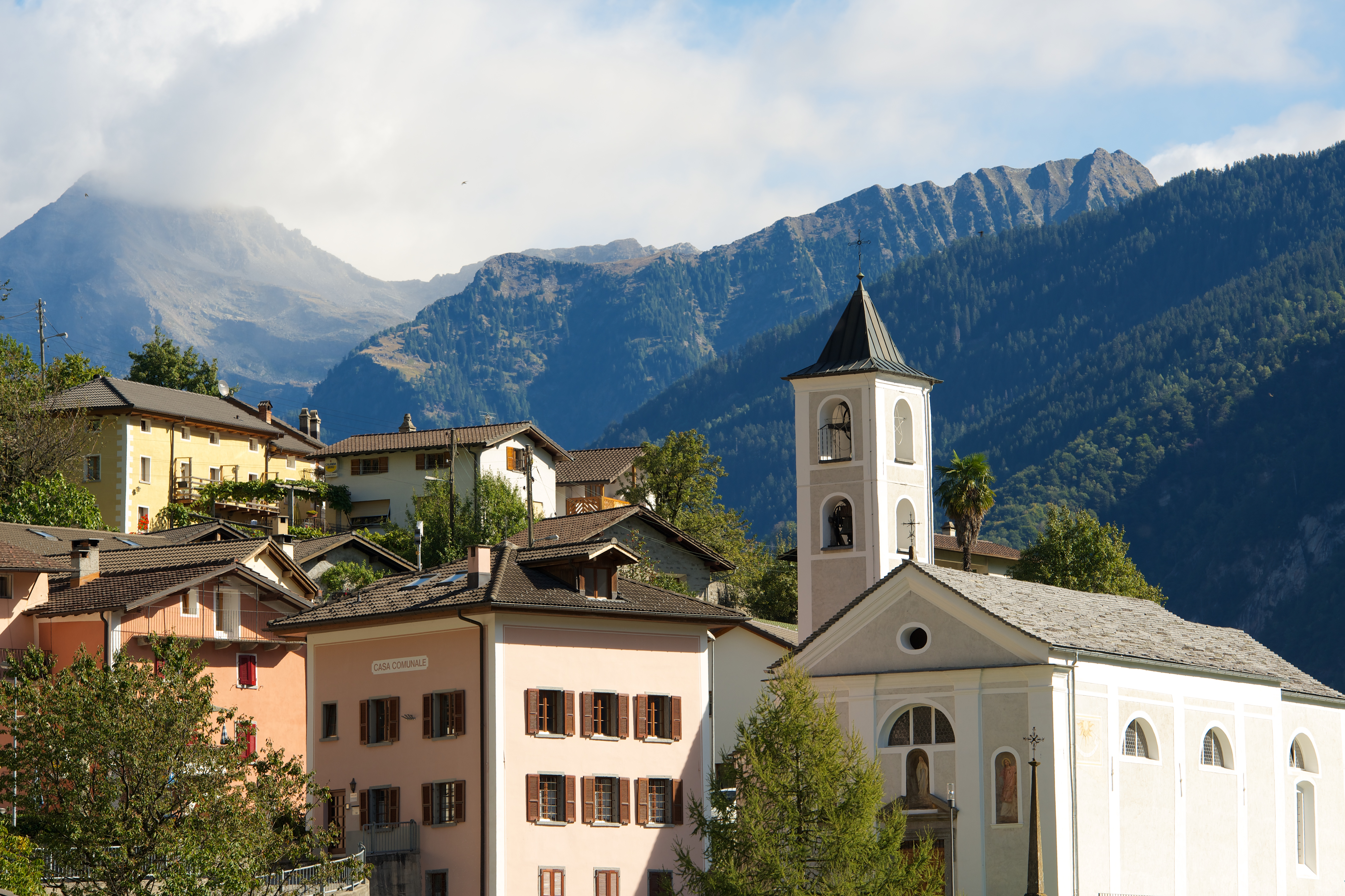 Verdabbio, Switzerland, Graubünden